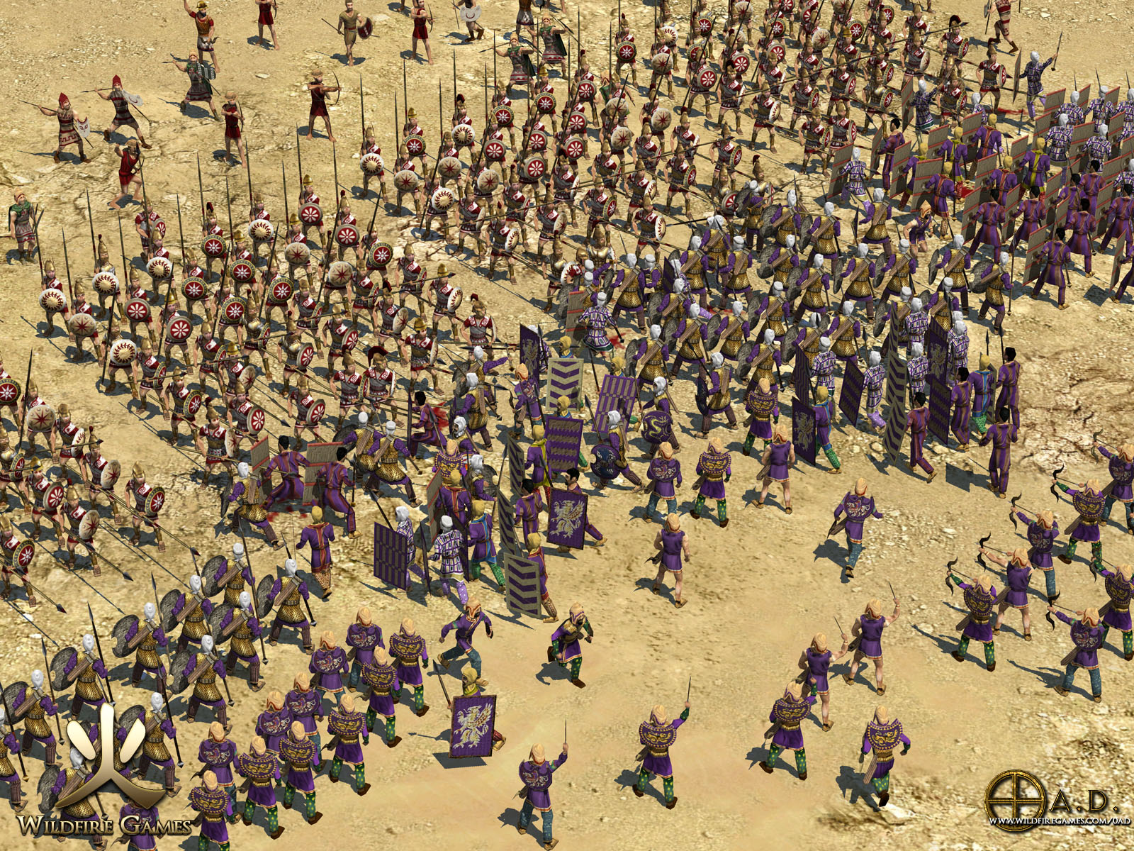 A screenshot of the free game, 0 A.D..